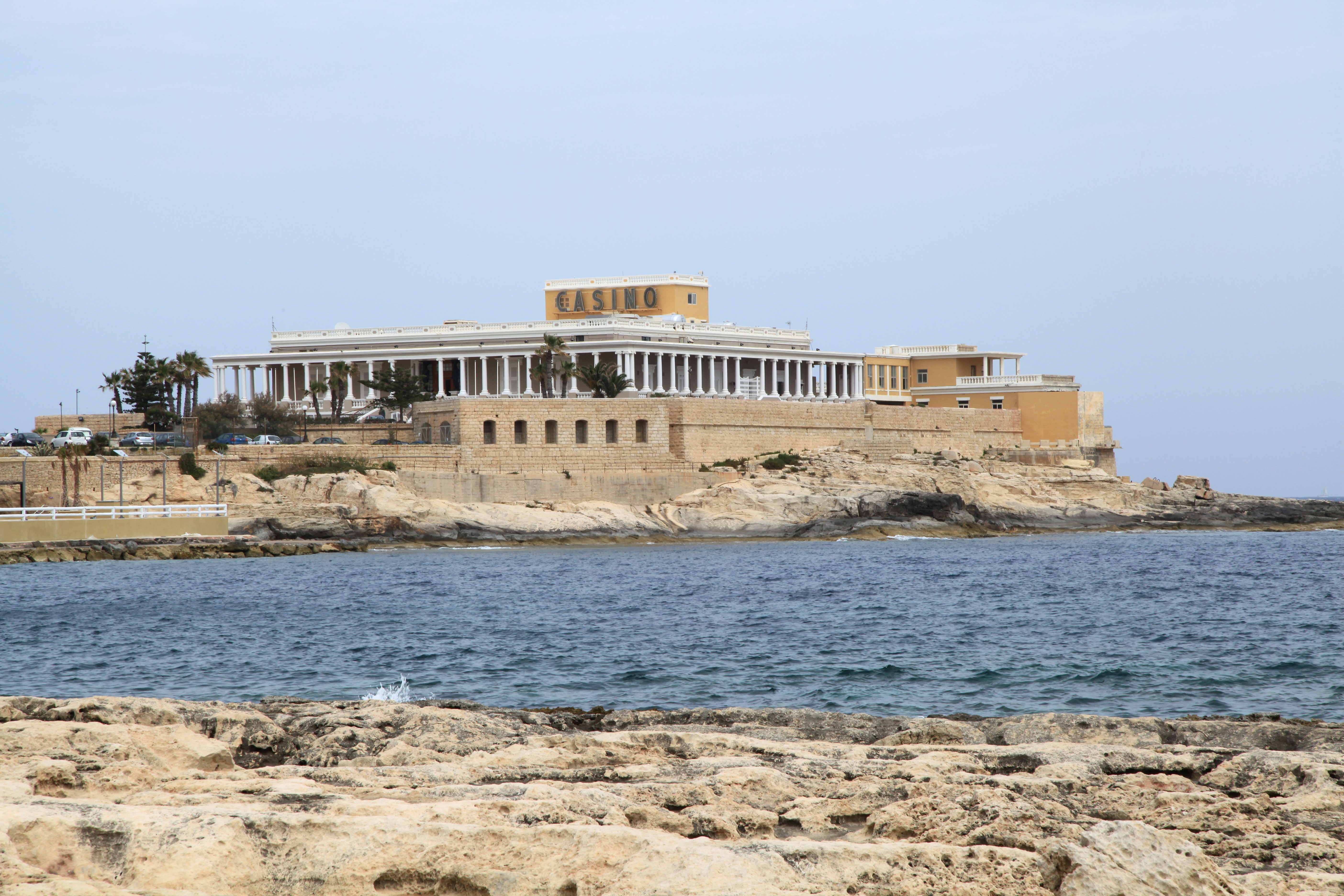 Dragonara Palace at Triq id-Dragunara in St. Julian's, Malta